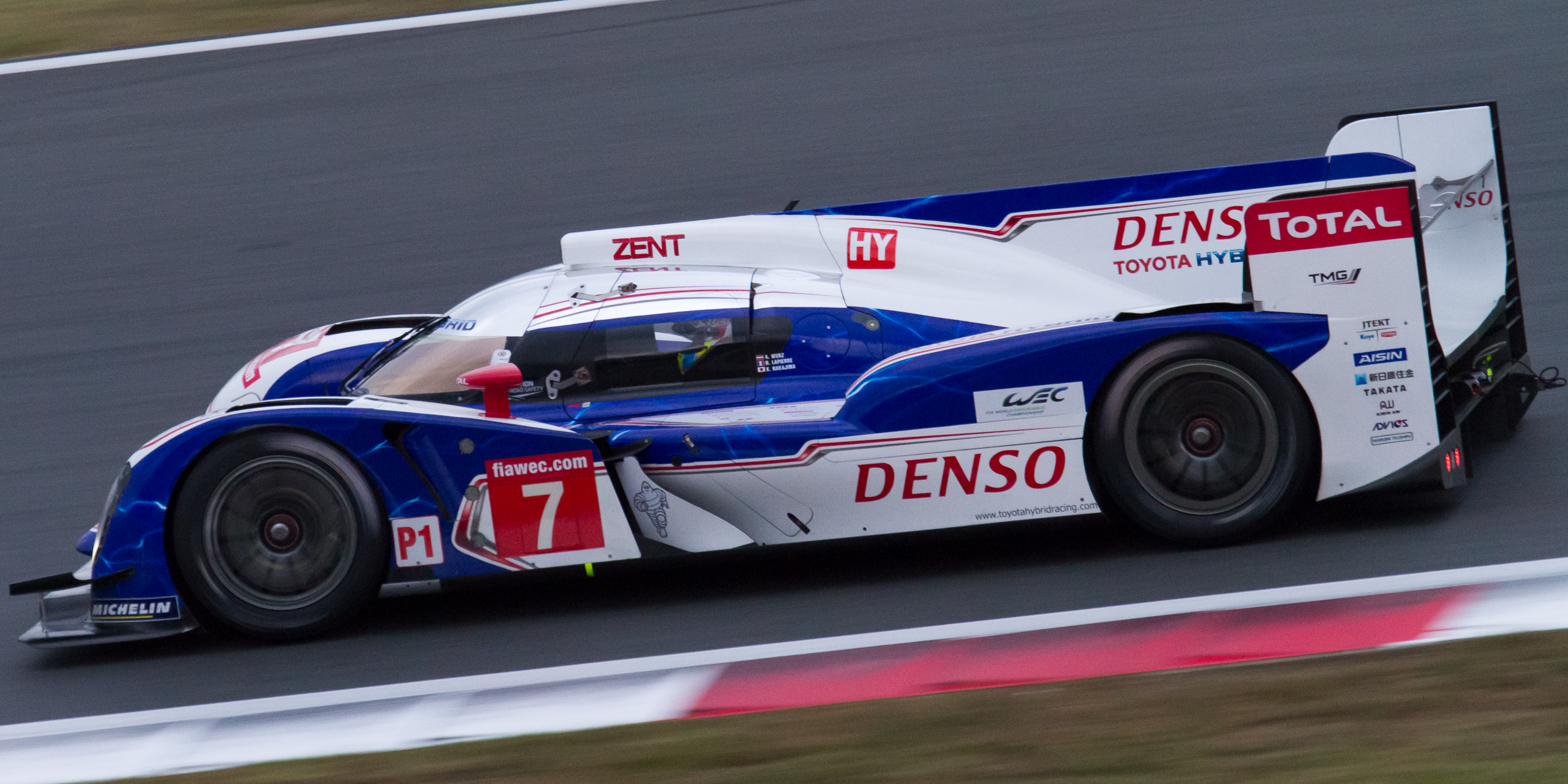 FIA World Endurance Championship 2012 Rd.7 6 Hours of Fuji: #7 Toyota TS030 Hybrid (Toyota Racing), driven by Alexander Wurz.